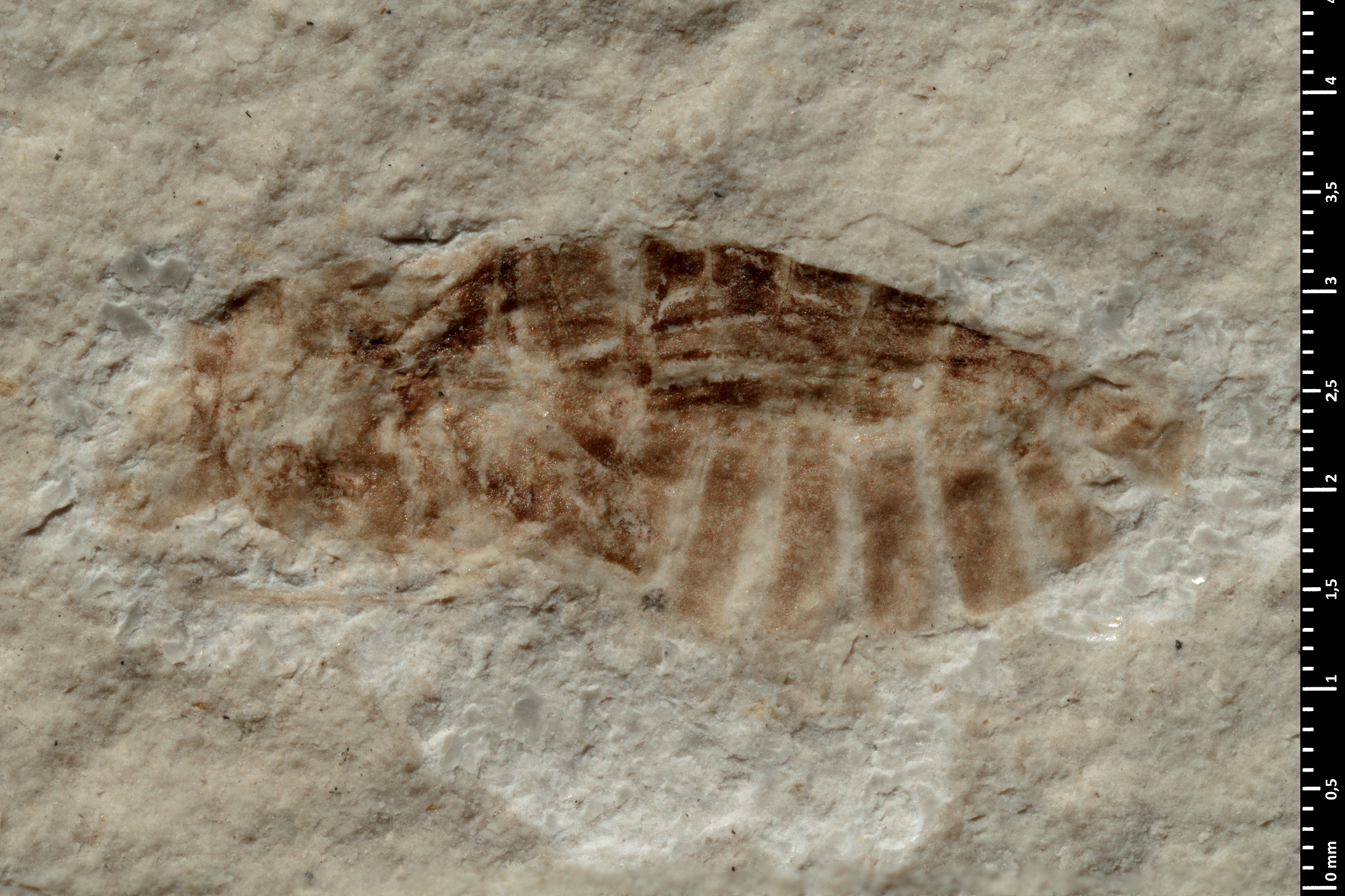 The Gallomesovelia grioti holotype part specimen with direct lighting. Kimmeridgian, Jurassic; "calcaire en plaquettes" Formation, Orbagnoux, Ain, Rhône-Alpes, France Muséum national d'Histoire naturelle specimen MNHN.F.A51098